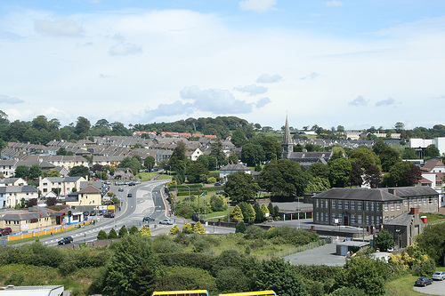 The village of Ferrybank, located in county Waterford.